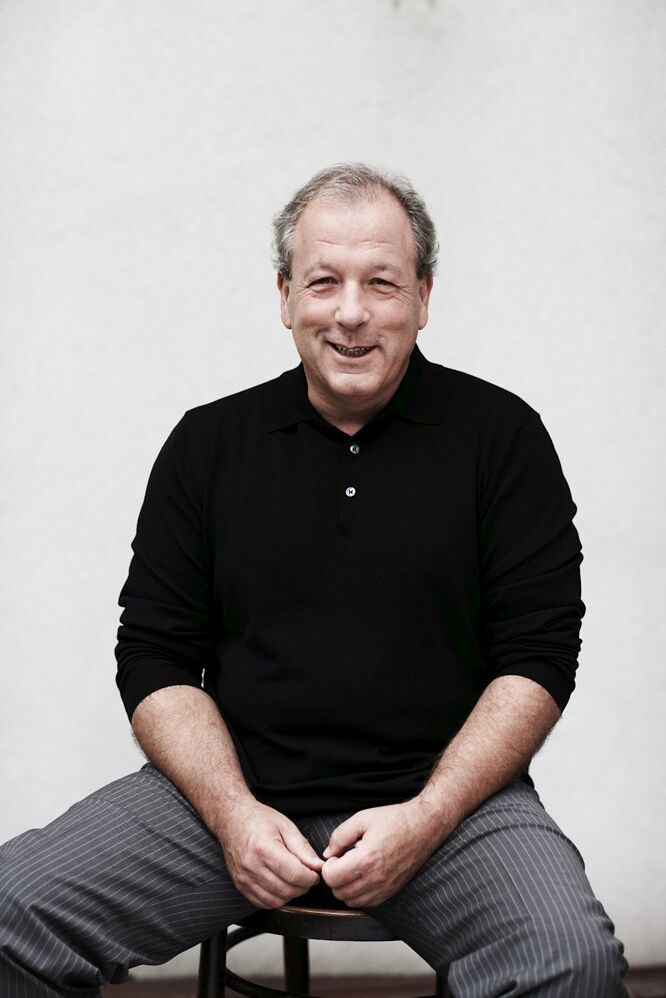 Miklós Vámos hungarian writer.